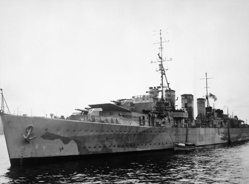 HMS LATONA stationary with a small craft alongside - the stern of LATONA is out of shot.